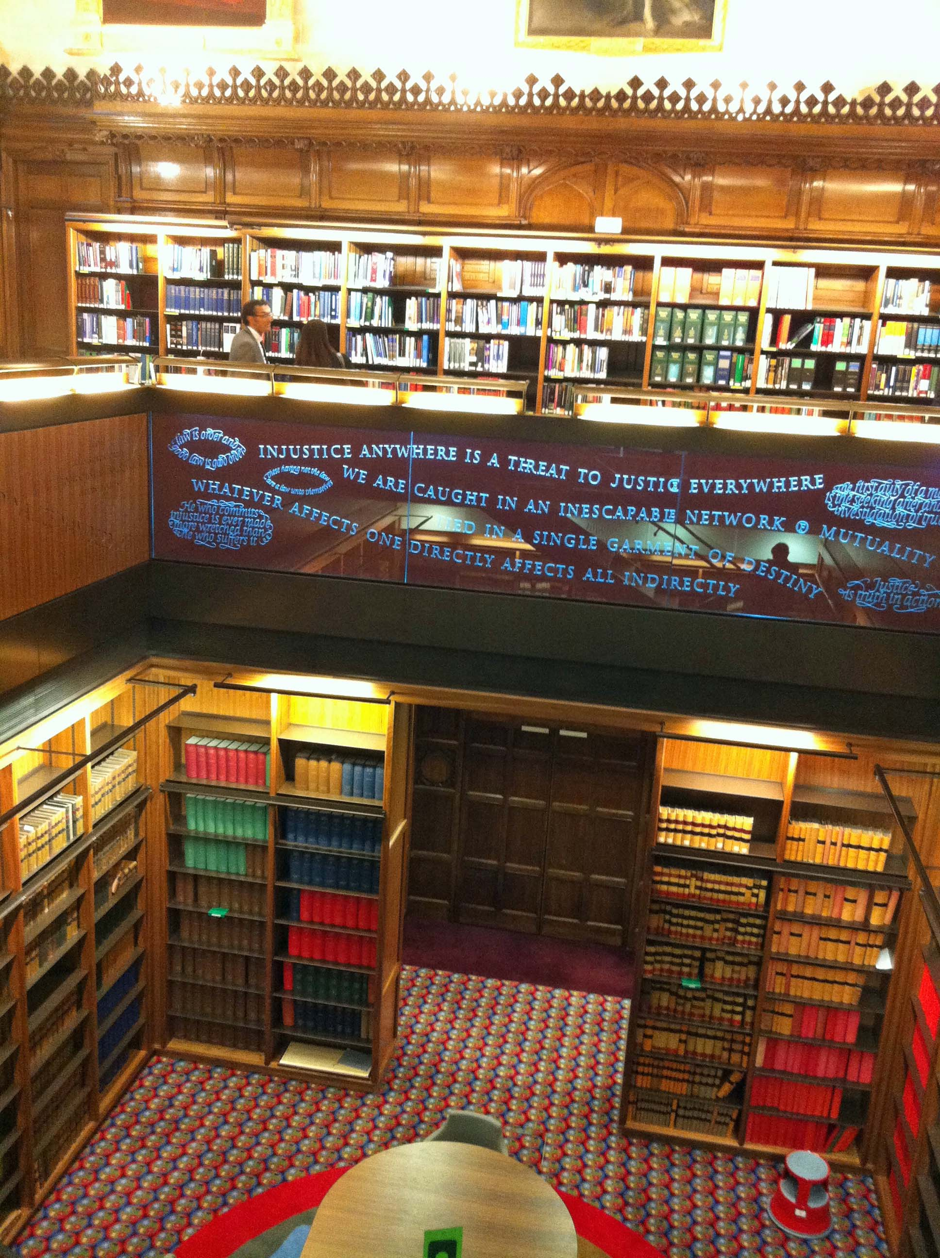 Library of the UK Supreme Court building in London, UK